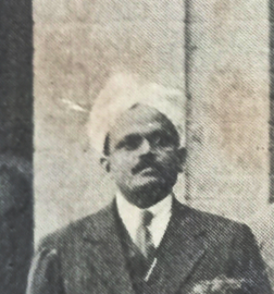 Entomologists at the fifth meeting in Pusa 1923 Fifth row (standing) Mukerjee, G.D.Ojha, Bashir, Torabaz Khan, D.P. Singh Fourth row (standing) M.O.T. Iyengar, R.N. Singh, S. Sultan Ahmad, G.D. Misra, Sharma, Ahmad Mujtaba, Mohammad Shaffi Third row (standing) Rao Sahib Rama Chandra Rao, D Naoroji, G.R.Dutt, Rai Bahadur C.S. Misra, SCJ Bennett (bacteriologist, Muktesar), P.V. Isaac, T.M. Timoney, Harchand Singh, S.K.Sen Second row (seated) Mr M. Afzal Husain, Major RWG Hingston, Dr C F C Beeson, T. Bainbrigge Fletcher, P.B. Richards, J.T. Edwards, Major J.A. Sinton First row (seated) Rai Sahib PN Das, B B Bose, Ram Saran, R.V. Pillai, M.B. Menon, V.R. Phadke (veterinary college, Bombay)